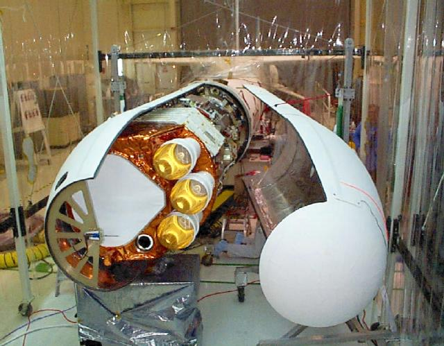 The Submillimeter Wave Astronomy Satellite (SWAS) in Vandenberg AFB, assembling the fairing.